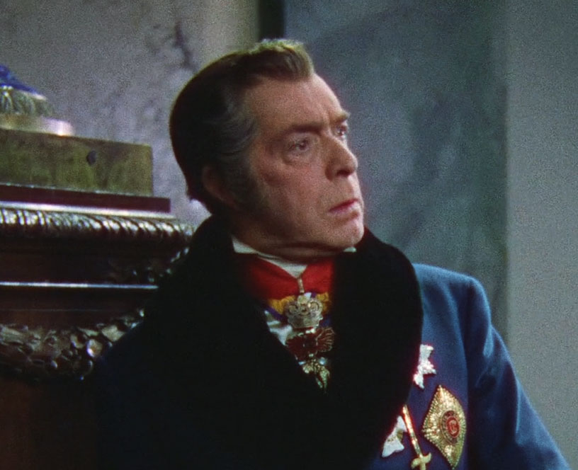 William Faversham in Becky Sharp (1935) (cropped screenshot).